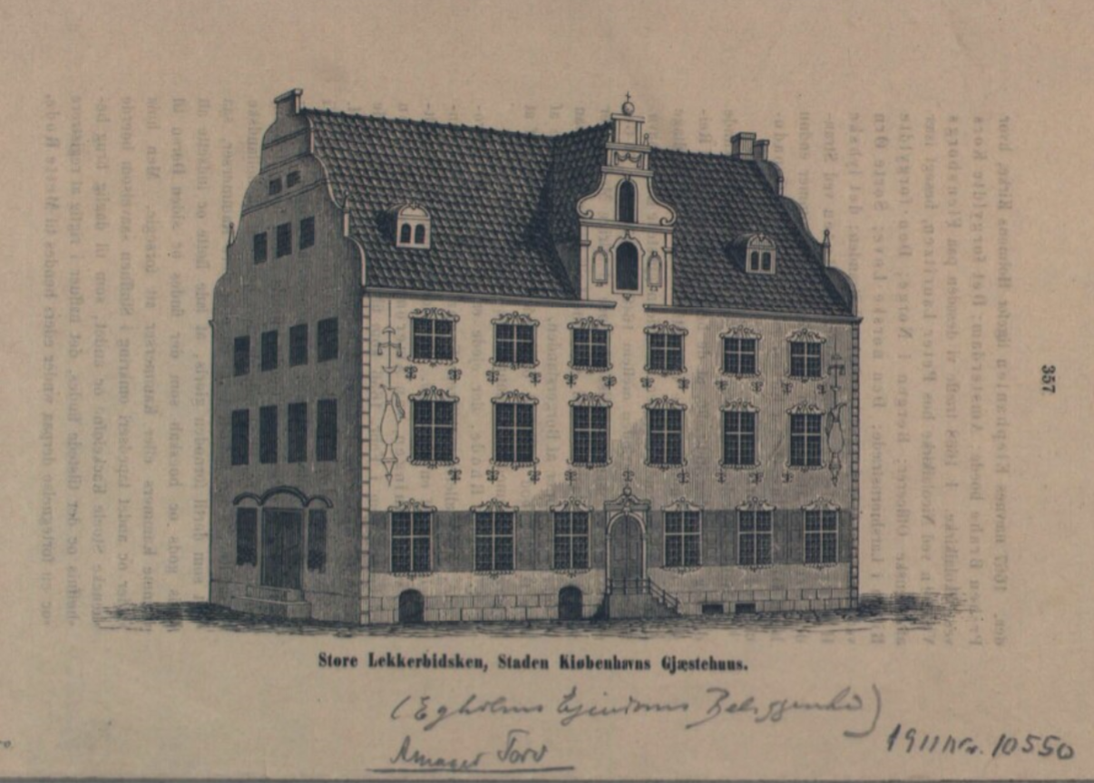 Store Lekkerbidsken, a hotel on Amagertorv in Copenhagen, Denmark